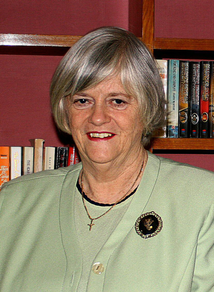 Ann Widdecombe at Edwina Currie's Book Club,Nightingale House April 2010